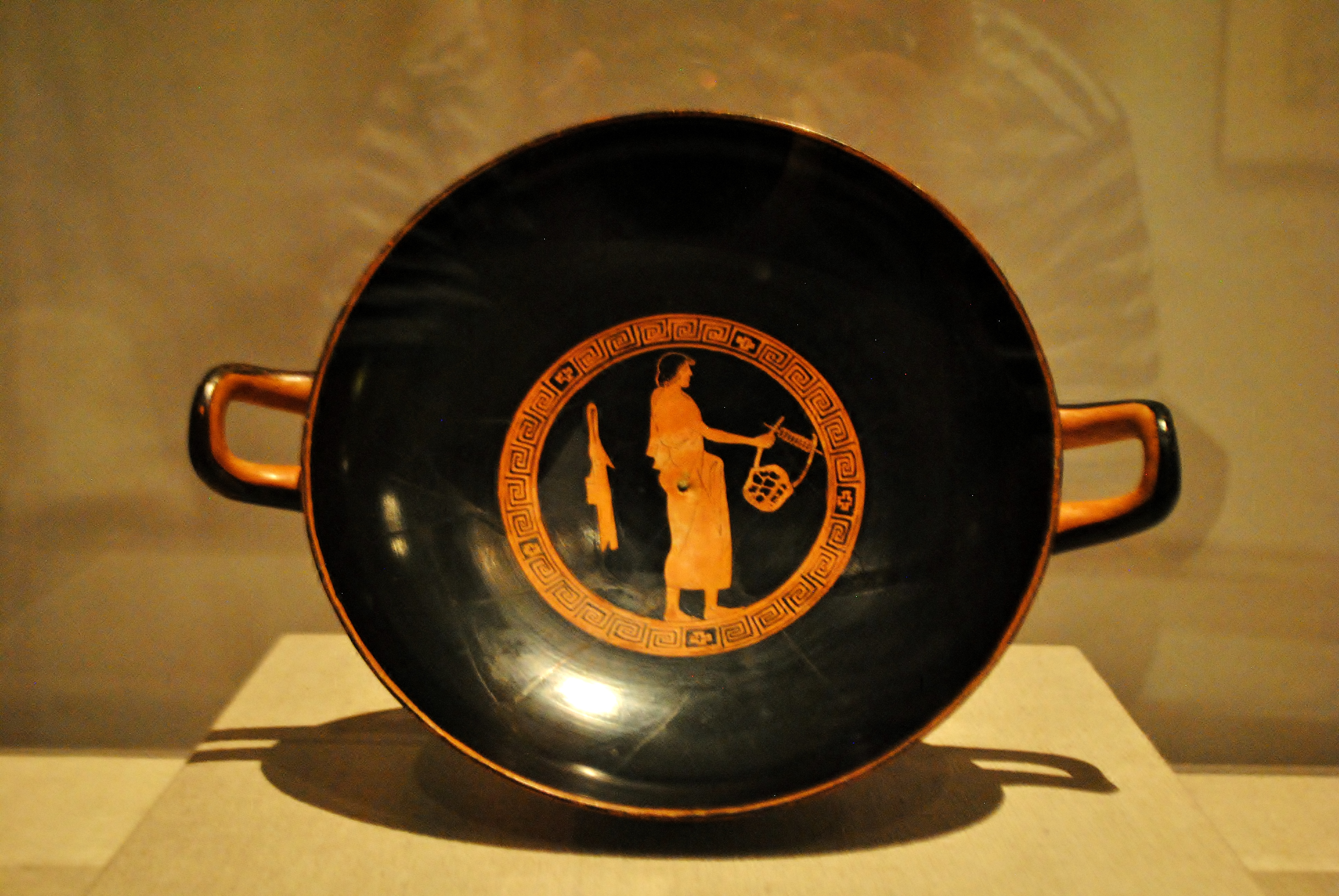 Ancient Greek pottery in the Museum of the Palacio de Bellas Artes, in Mexico City.